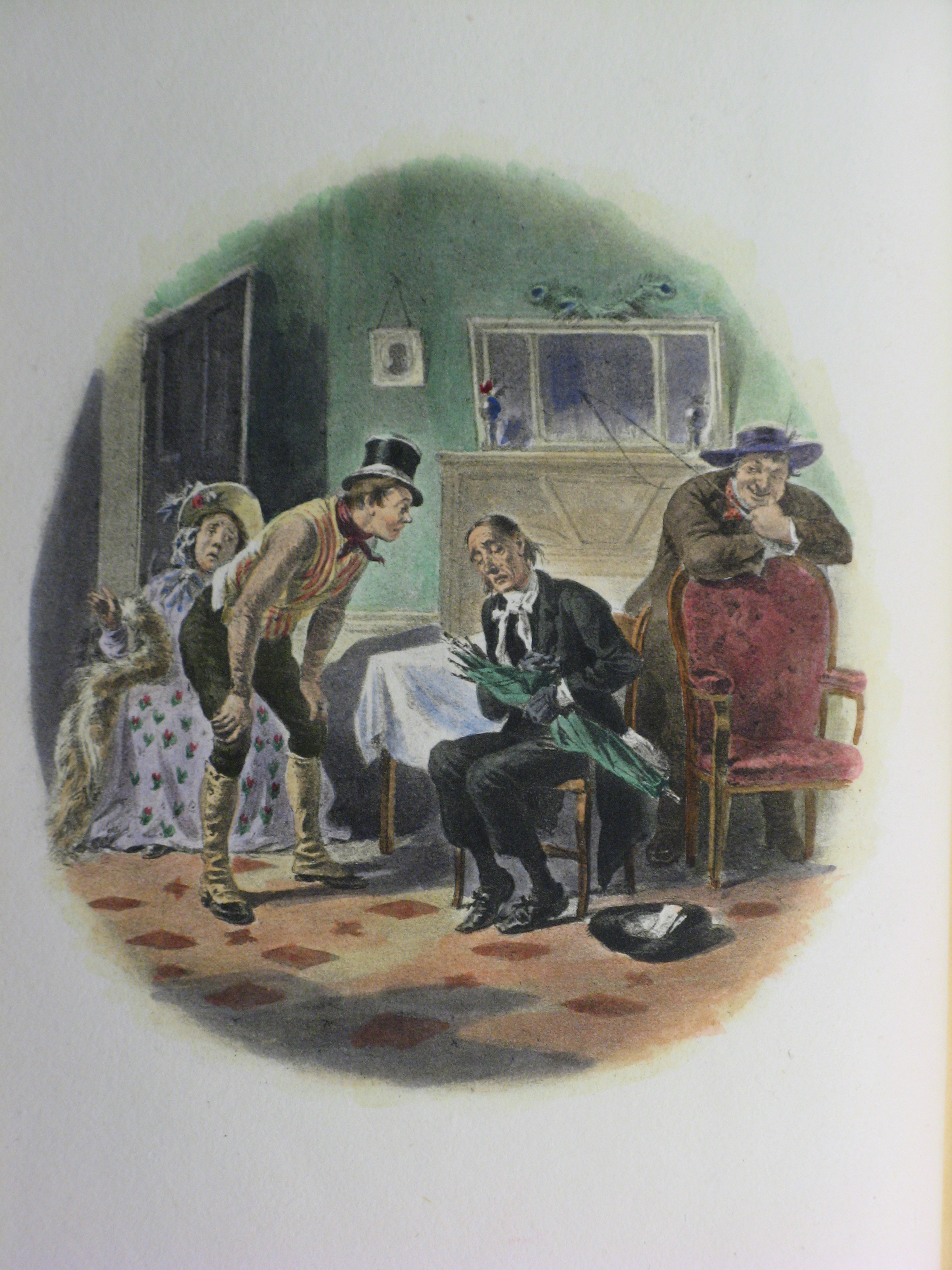 A photograph of the colorized engraving in The Writings of Charles Dickens volume 1, The Pickwick Club, title unknown. The illustration is not listed in the List of Illustrations.